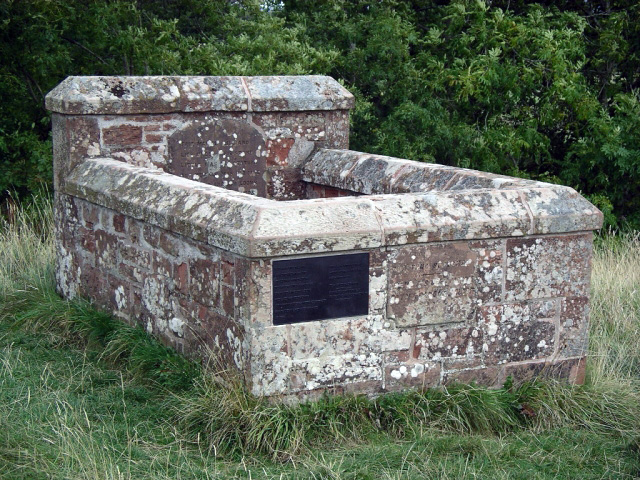 Lady Lilliard's grave, 3 km from Maxton, Scottish Borders, Great Britain The site of the battle of Ancrum moor 1545. The gravestone reads:- "Fair maiden Lilliard lies under this stane. Little was her stature but muckle was her fame. Upon the english loons she laid monie thumps, an' when her legs were cuttit off, she fought upon her stumps."